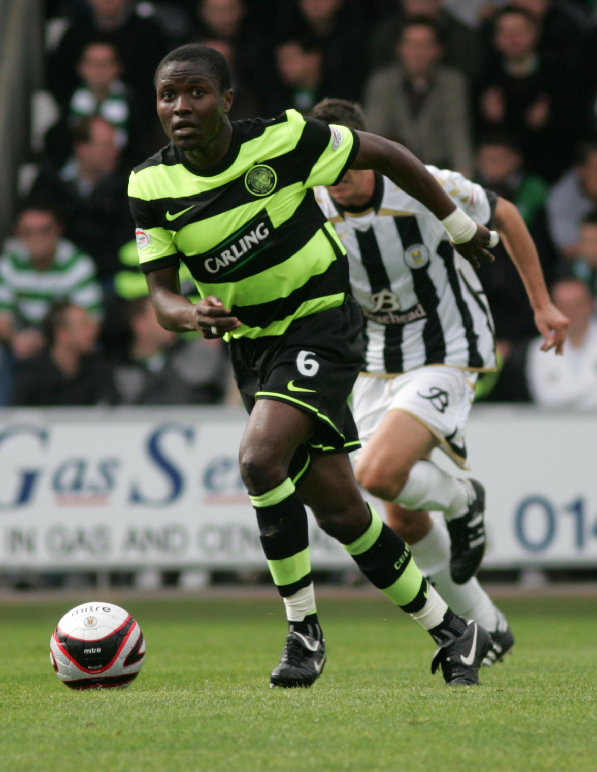 Landry N'Guemo playing for Celtic F.C. in a Scottish Premier League match against St. Mirren F.C.